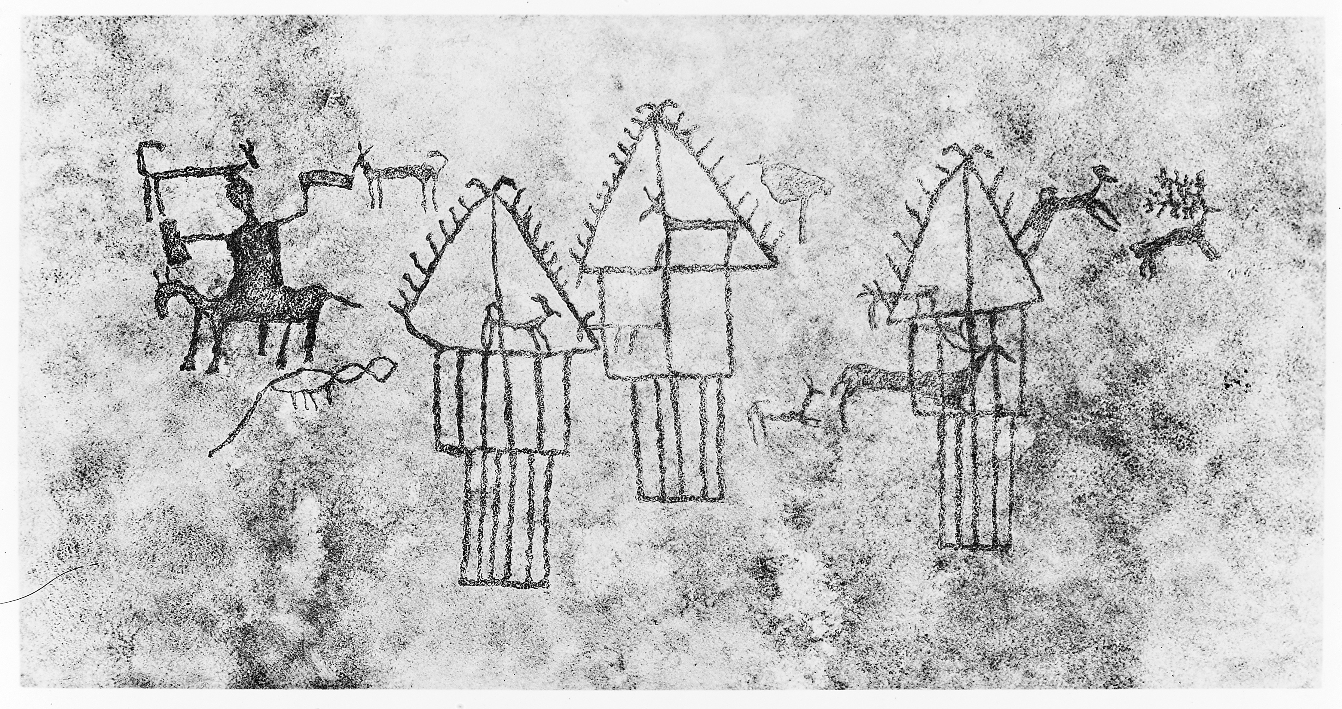 Rock carvings showing housing conditions. Wellcome Images Keywords: prehistoric art; Archaeology